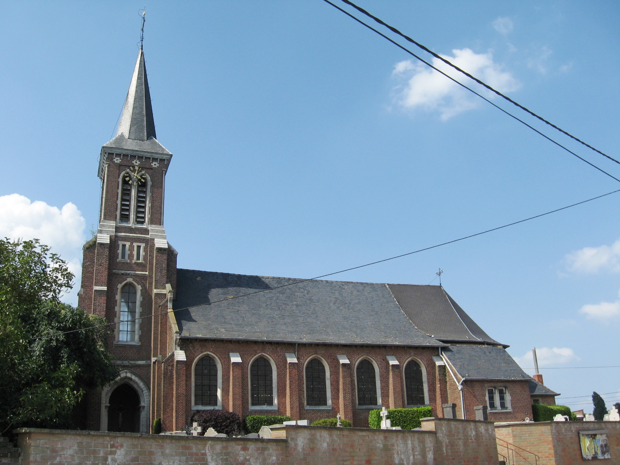 Church of Saint Germain in Miskom, Kersbeek-Miskom, Kortenaken, Flemish Brabant, Belgium